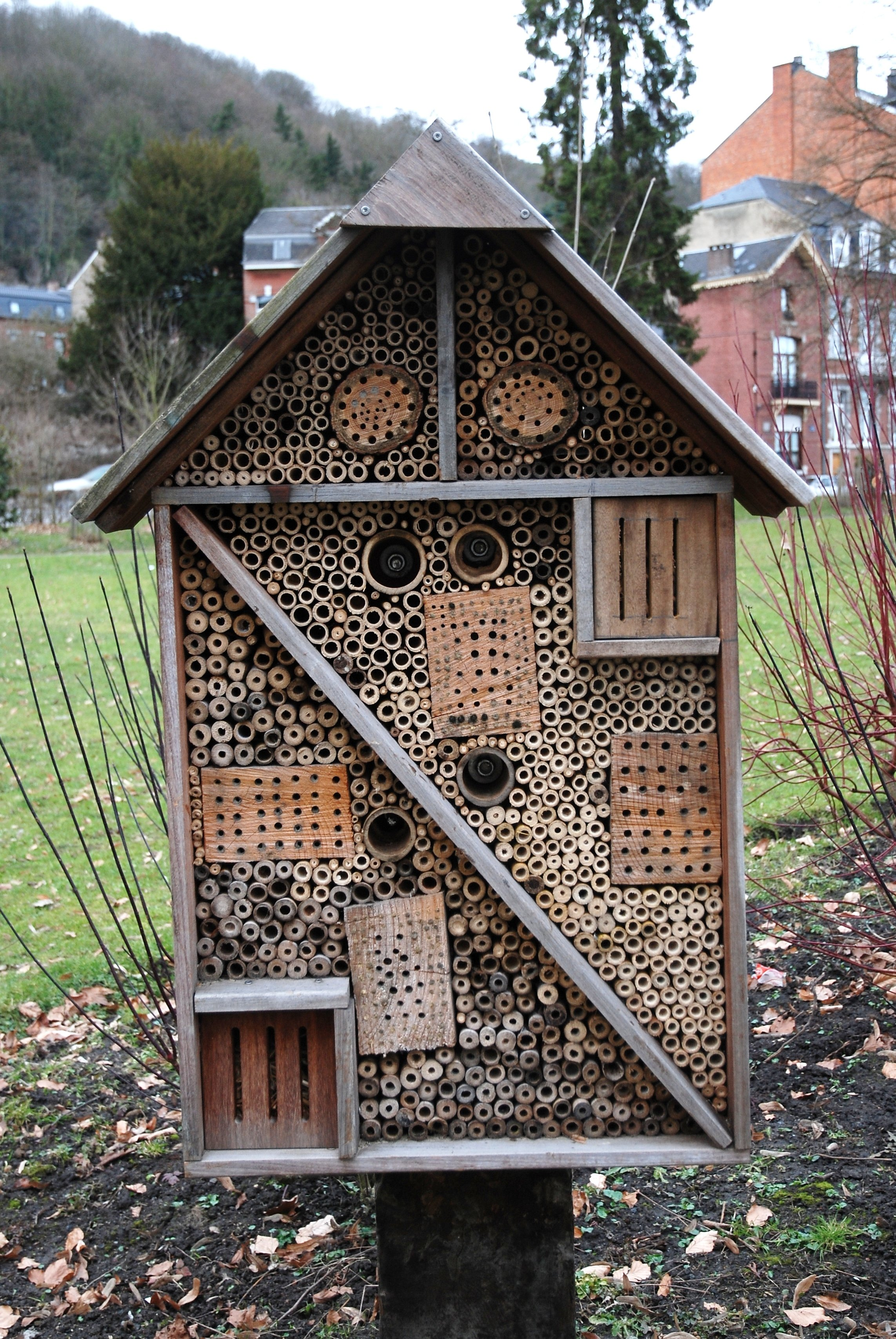 Bee nest in a suburban park